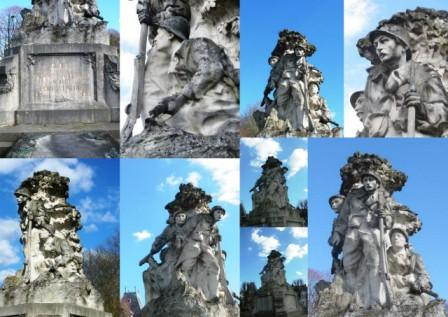 A montage of photographs of the monument aux morts at Abbeville in the Somme.This monument aux morts is called “Les Patrouillers” (the night patrol). It stands in the Place Foch. The decision to erect a monument by subscription was taken in 1920 and in February 1920 the committee charged with supervising the erection of the monument organised an open competition to which 16 sculptors submitted maquettes including the Parisien sculptor Gauquié. In June 1921 the award for this prestigious monument aux morts was made to the Amiens sculptor Louis Henri Leclabart who had himself seen service with the 12ème R.I.T. The contract signed between Leclabart and the town was for a sum of 90,000 francs to cover the sculpture and engraving of the names of the dead. The monument was installed where Lesueur’s Franco-Prussian war memorial had stood and was inaugurated on the 3rd June 1923 by Maréchal Foch. There are some palms and laurel leaves in bronze on the pedestal, these dated 1927. The pedestal is made from Euville stone and the sculptured group in Lavoux stone. Place Foch has been renamed Place du General de Gaulle.